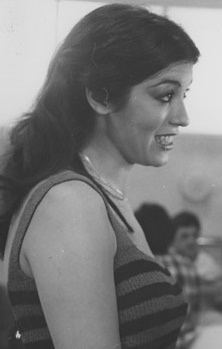 Mónica Vehil- actriz argentina